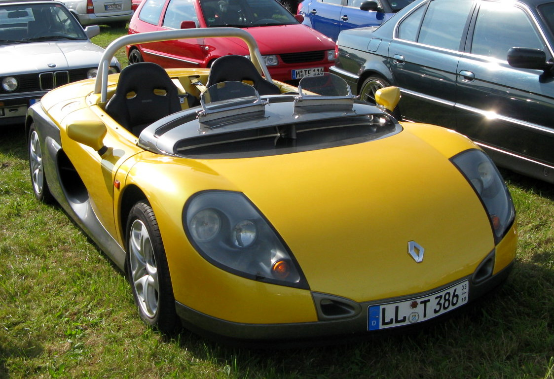 Renault Spider at vintage vehicle & airplane show at Jesenwang (Bavaria)